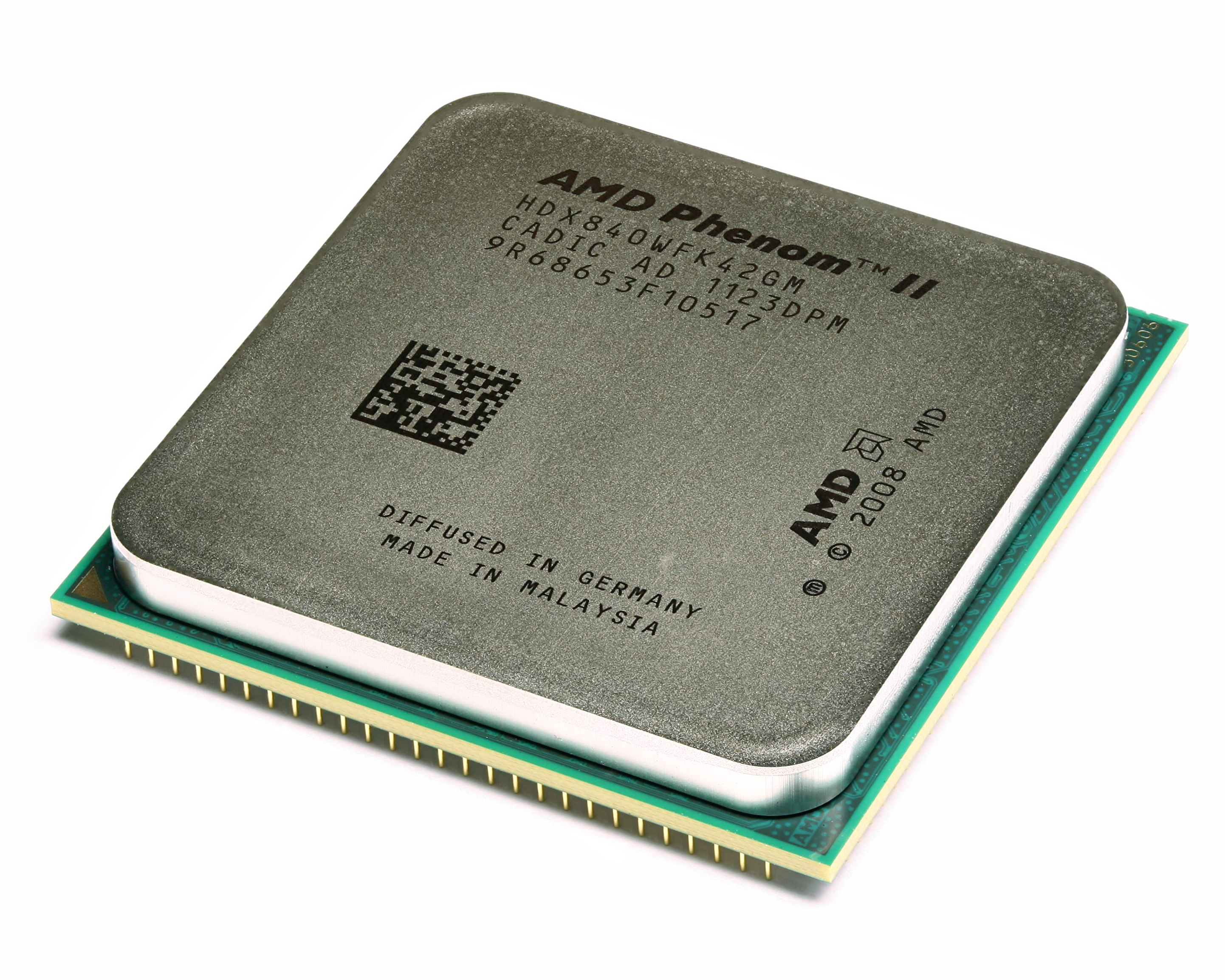 The top side of an AMD Phenom II X4 840 (HDX840WFK42GM) CPU